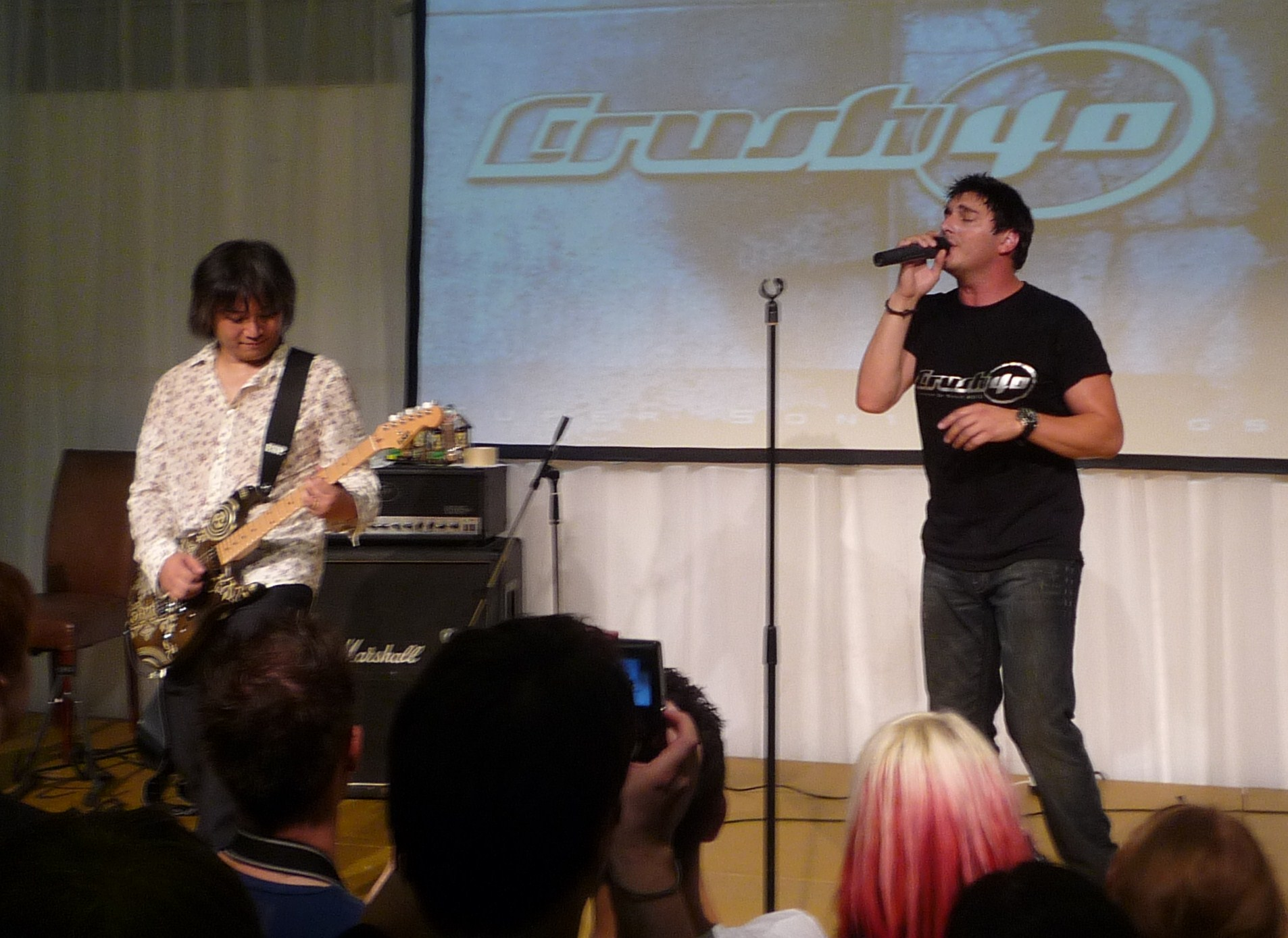 Crush 40 performing live at Summer of Sonic 2010 in London.